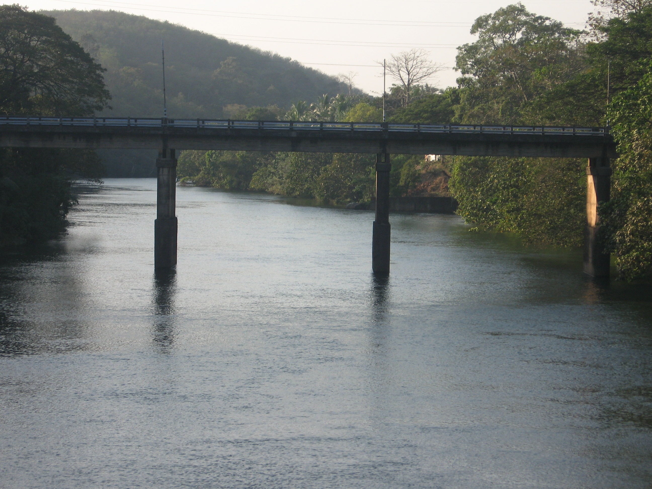 Bridge over the Kallada River.